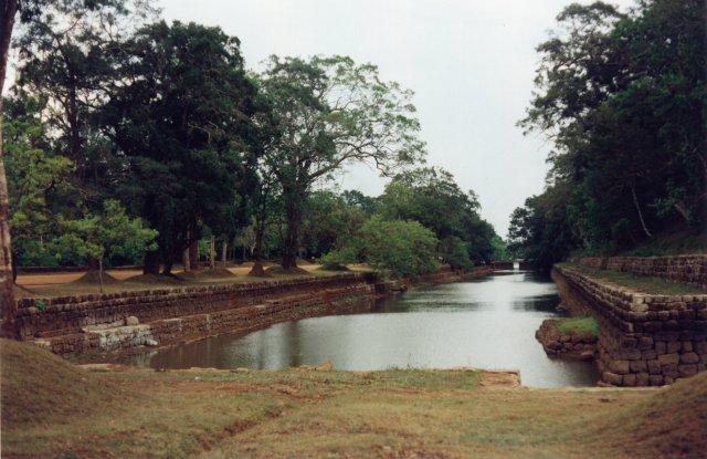 Sigiriya moat and garden, Sigiriya gardens, Sri Lanka.